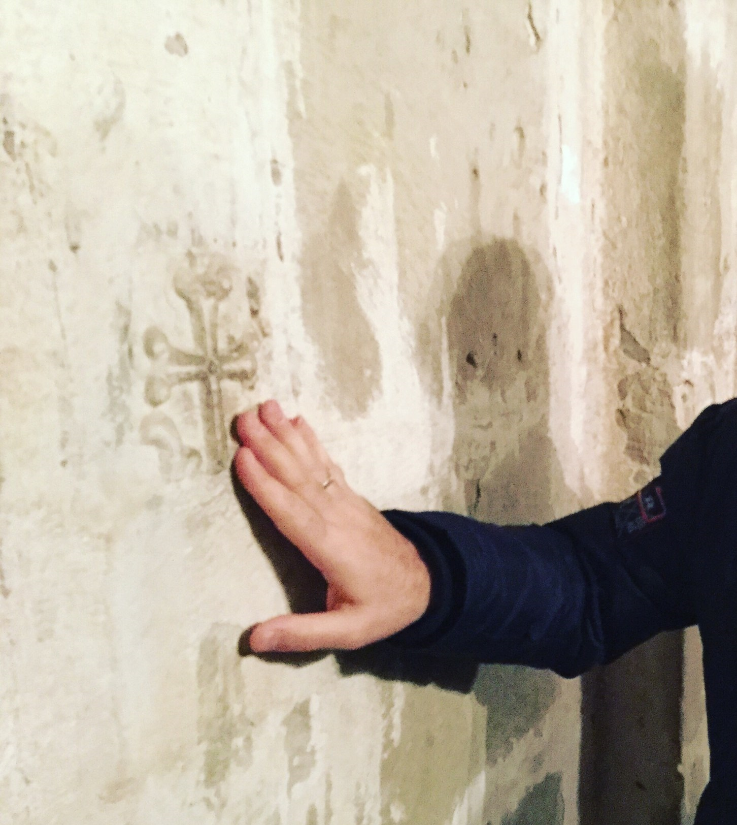 Assyrian Orthodox Cross in Monastery of saint Shio Mgvimskiy